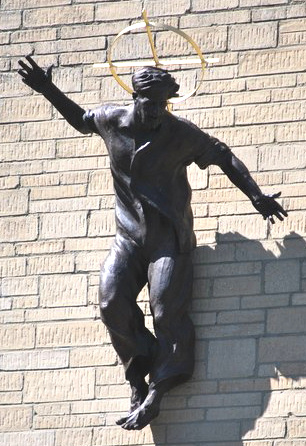 Bronze sculpture of Jesus Christ by English sculptor Marcus Cornish. It was commissioned to mark the 50th anniversary of the Our Lady Immaculate and St Philip Neri Catholic Church in Uckfield, East Sussex and has been dubbed "Jesus in Jeans" by the media.